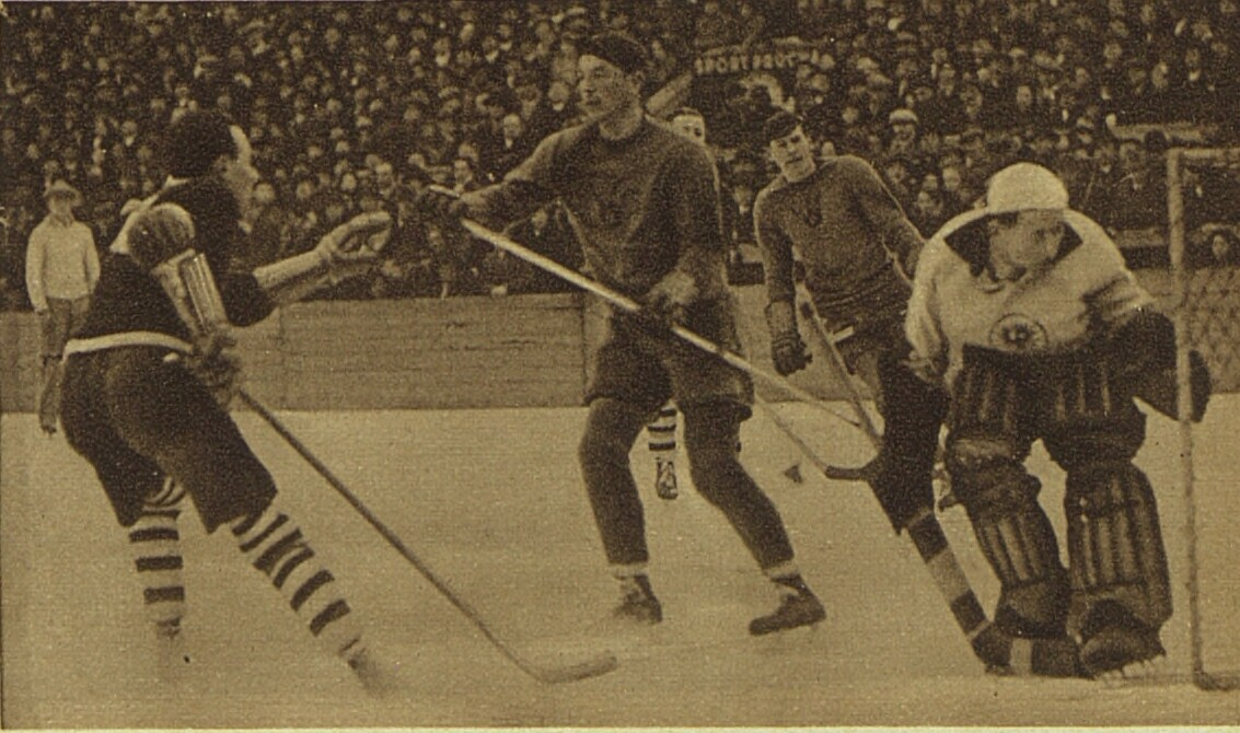 Ice hockey match Czechoslovakia - Austria at World Championship 1933 in Prague